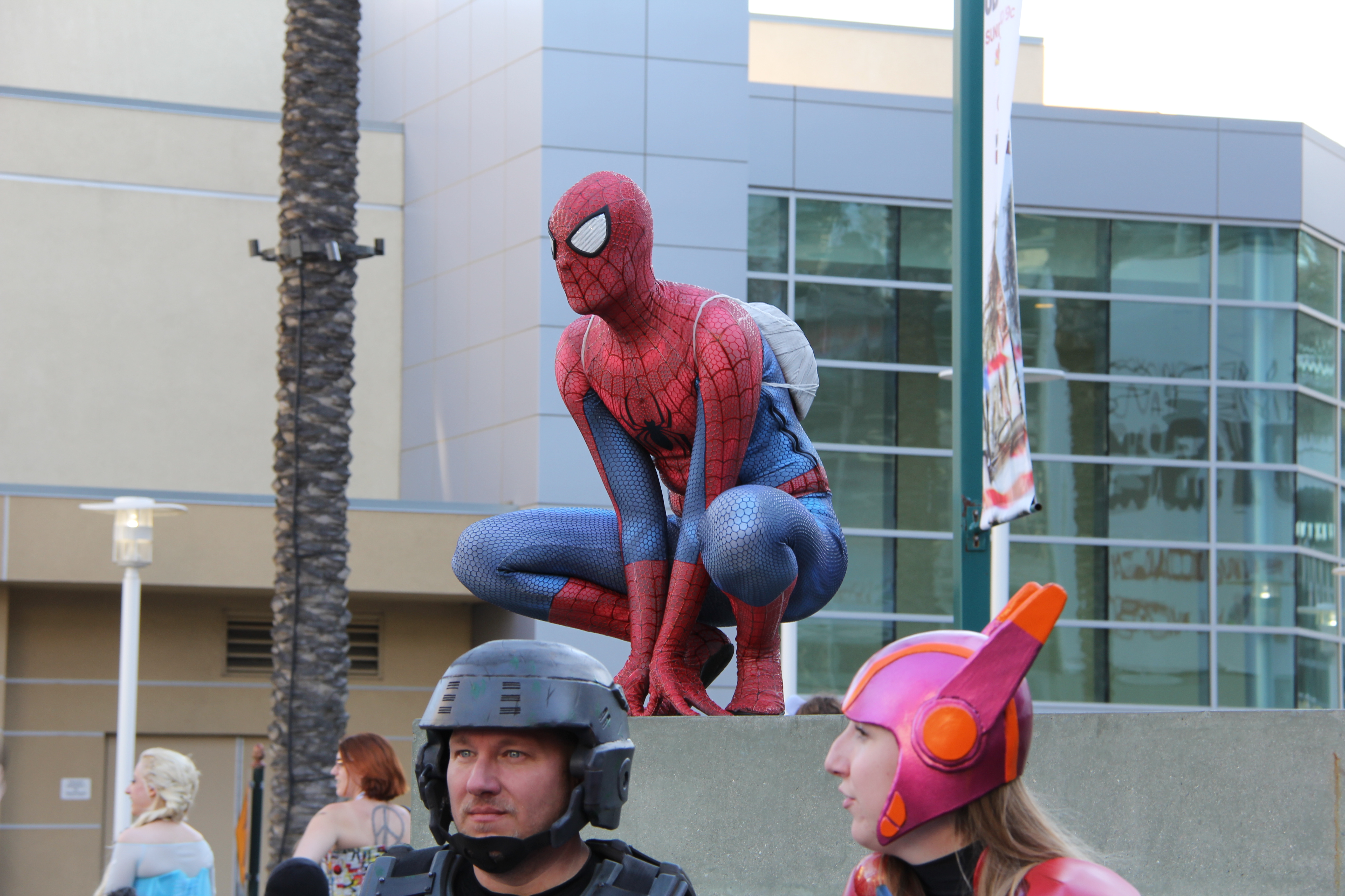 A cosplay of just Spider-Man